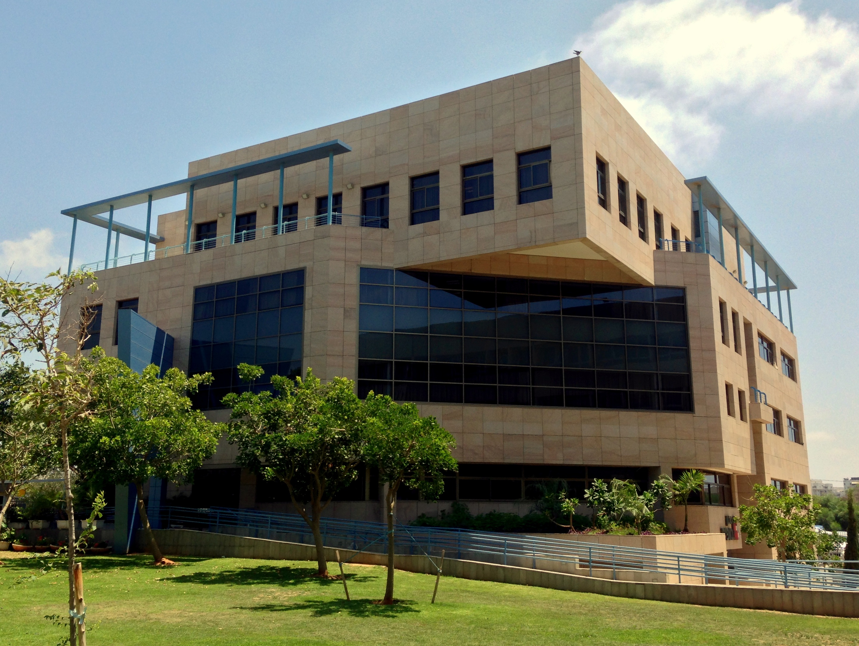 The MOFET Institute of Israel is the national center for the research and development of programs in teacher education and teaching in the colleges. It is a consortium of Israeli colleges of education which specializes in research, curriculum and program development for teacher educators.